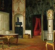 Guest room at Frederiksdal, Denmark , 1925